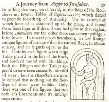 Maundrell's 1697 depiction of the Assyrian stelae at Nahr al-Kalb